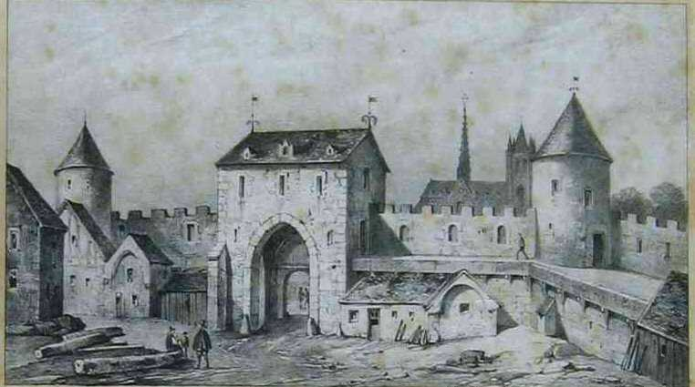 Porte Saint Victor Paris